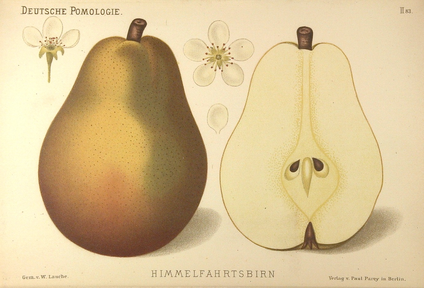 Page 83 from Deutsche Pomologie — Birnen, by Wilhelm Lauche, 1882. Published by Deutsche Pomologen-Vereins (German Pomological Society). Part of a series from the same book. The others can be found in Category:Deutsche Pomologie - Birnen Depicted pear cultivar: Himmelfahrtsbirn